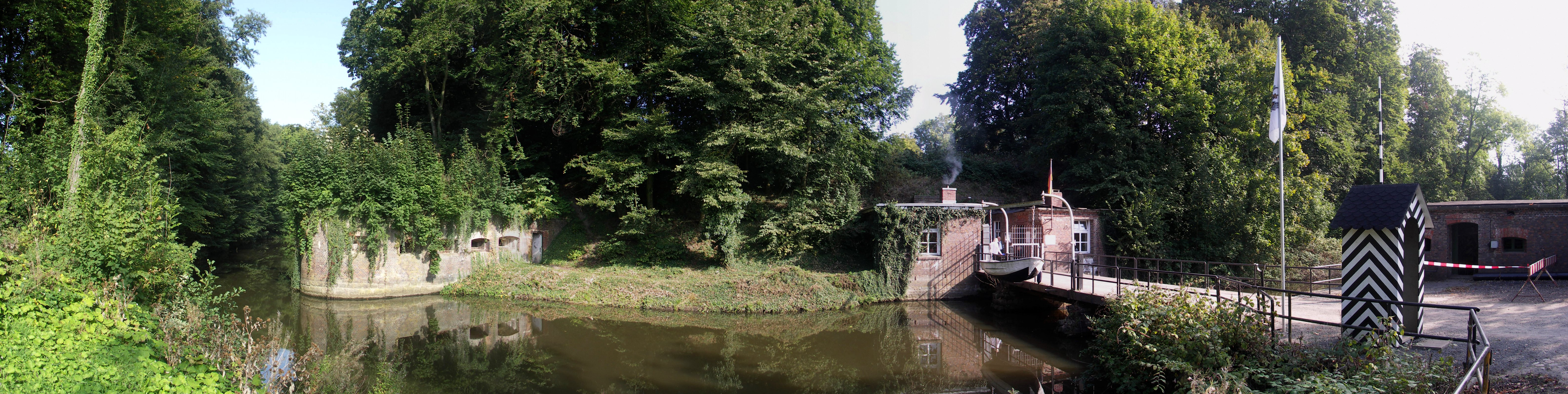 Gate of the fortress Grauerort in Abbenfleht near Stade with "Gewehrcarponiere"